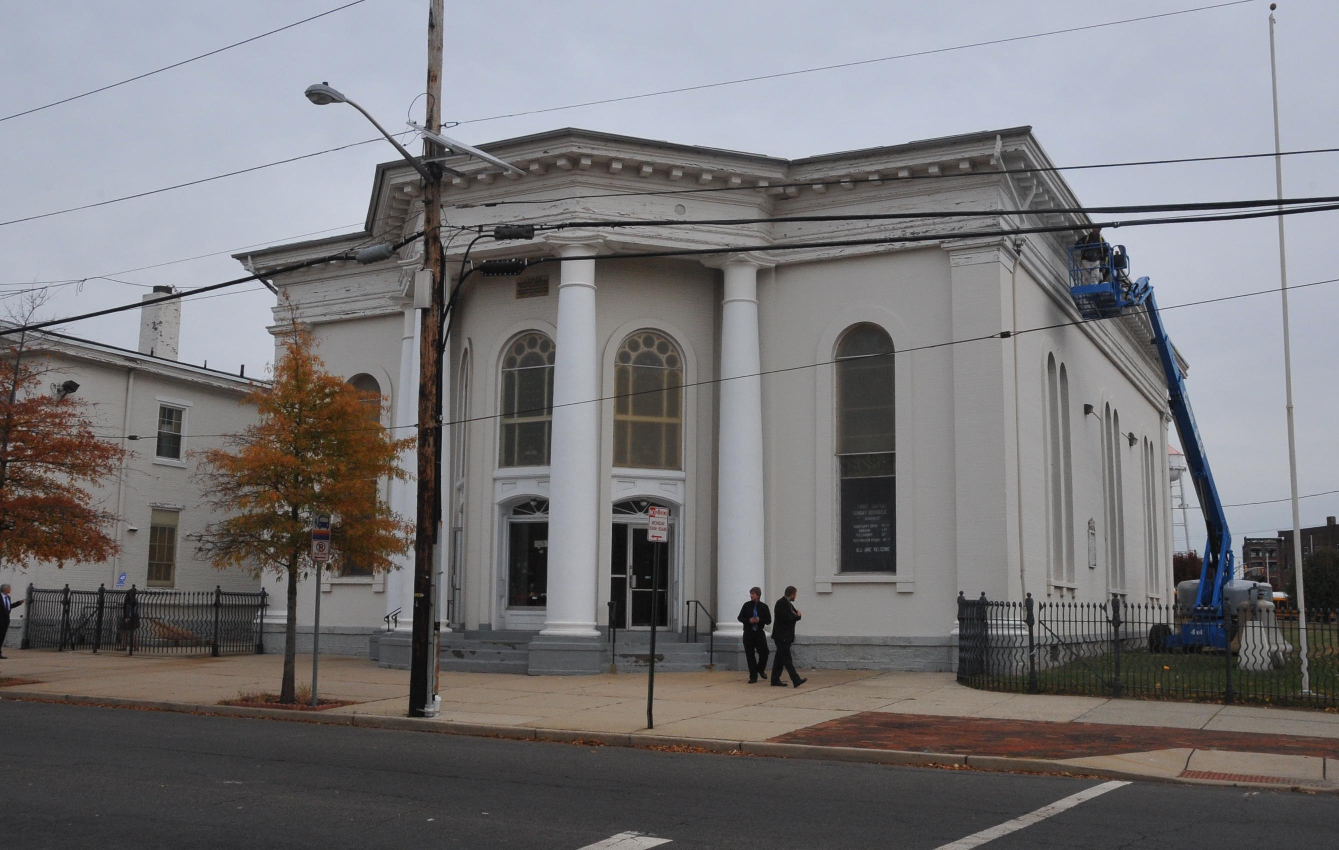 FIRST BAPTIST CHURCH IN THE TRENTON FERRY HISTORIC DISTRICT; ERECTED IN 1858 BUT THE GRAVEYARD CONTAINS GRAVES OF MANY REVOLUTIONARY WAR VETERANS. THIS IS THE MOST PROMINENT BUILDING IN THE DISTRICT